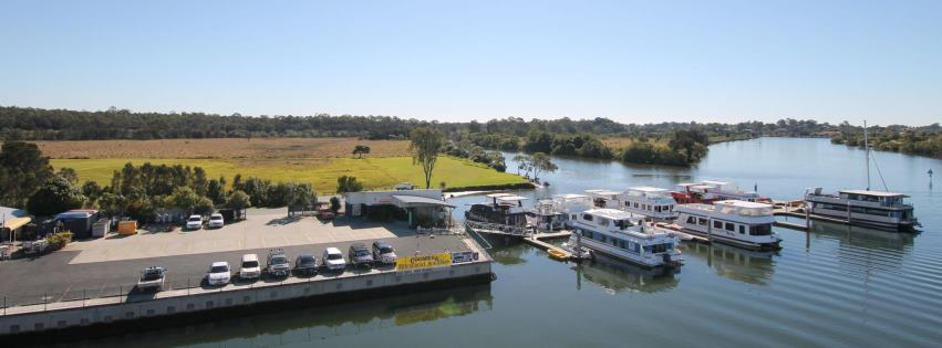 these houseboats are moored at Coomera Houseboat Holidays as they are self-drive leisure vessels.